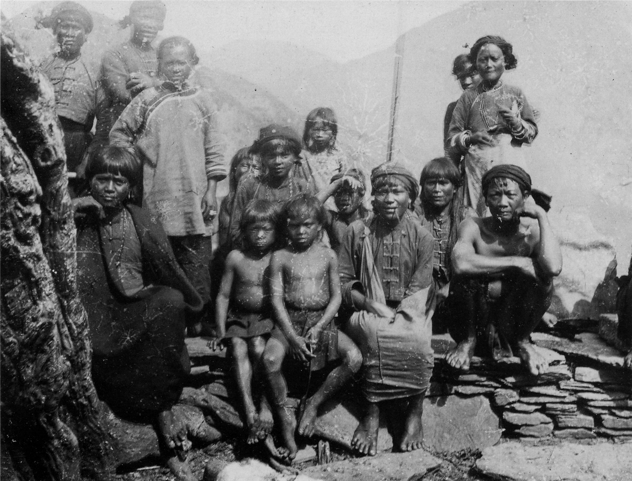 鳥居龍藏所攝歸化門社排灣族人